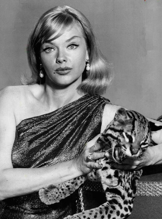 Photo of Anne Francis as Honey West and Bruce from the television program Honey West.